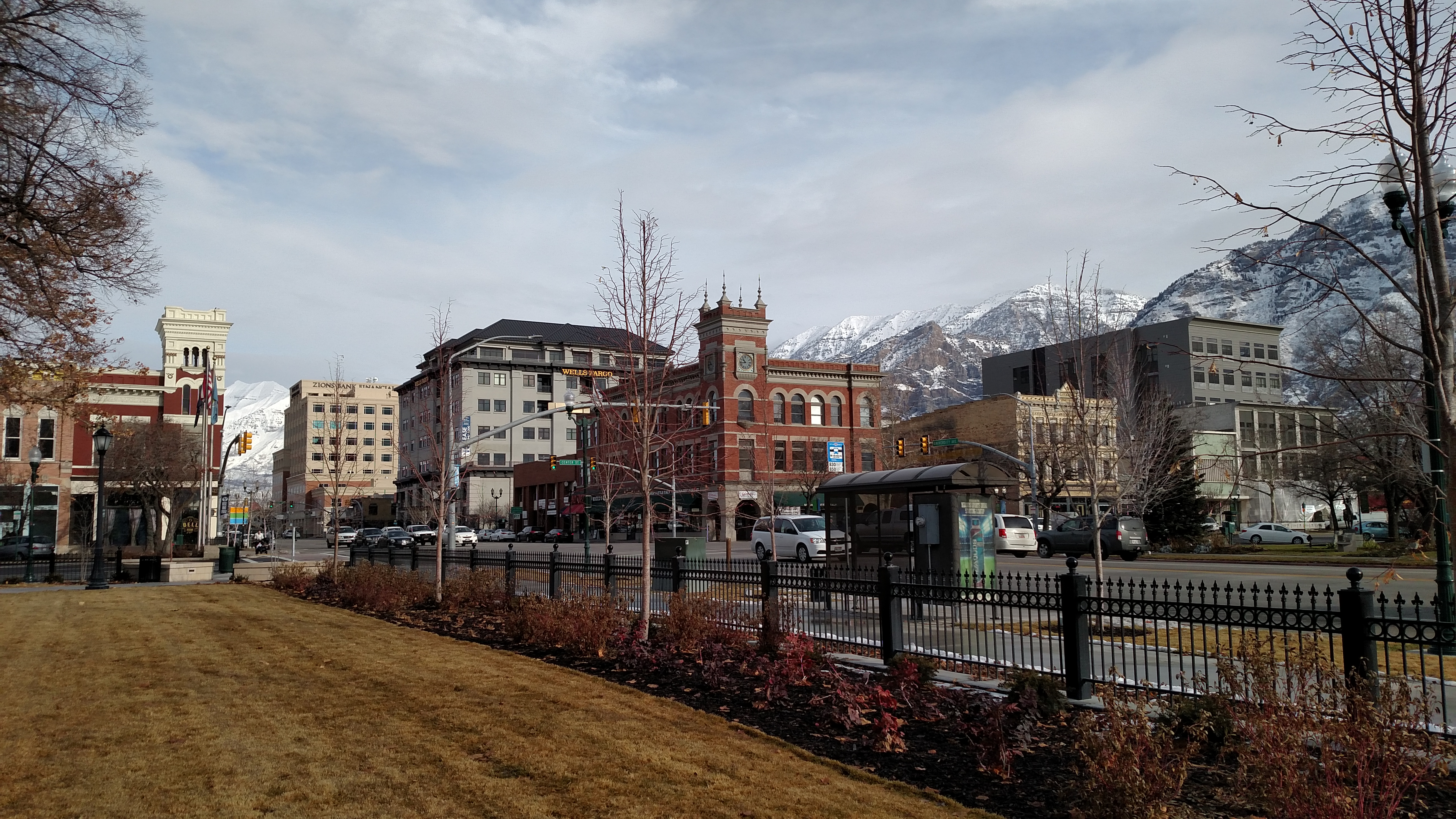 A view of Downtown Provo